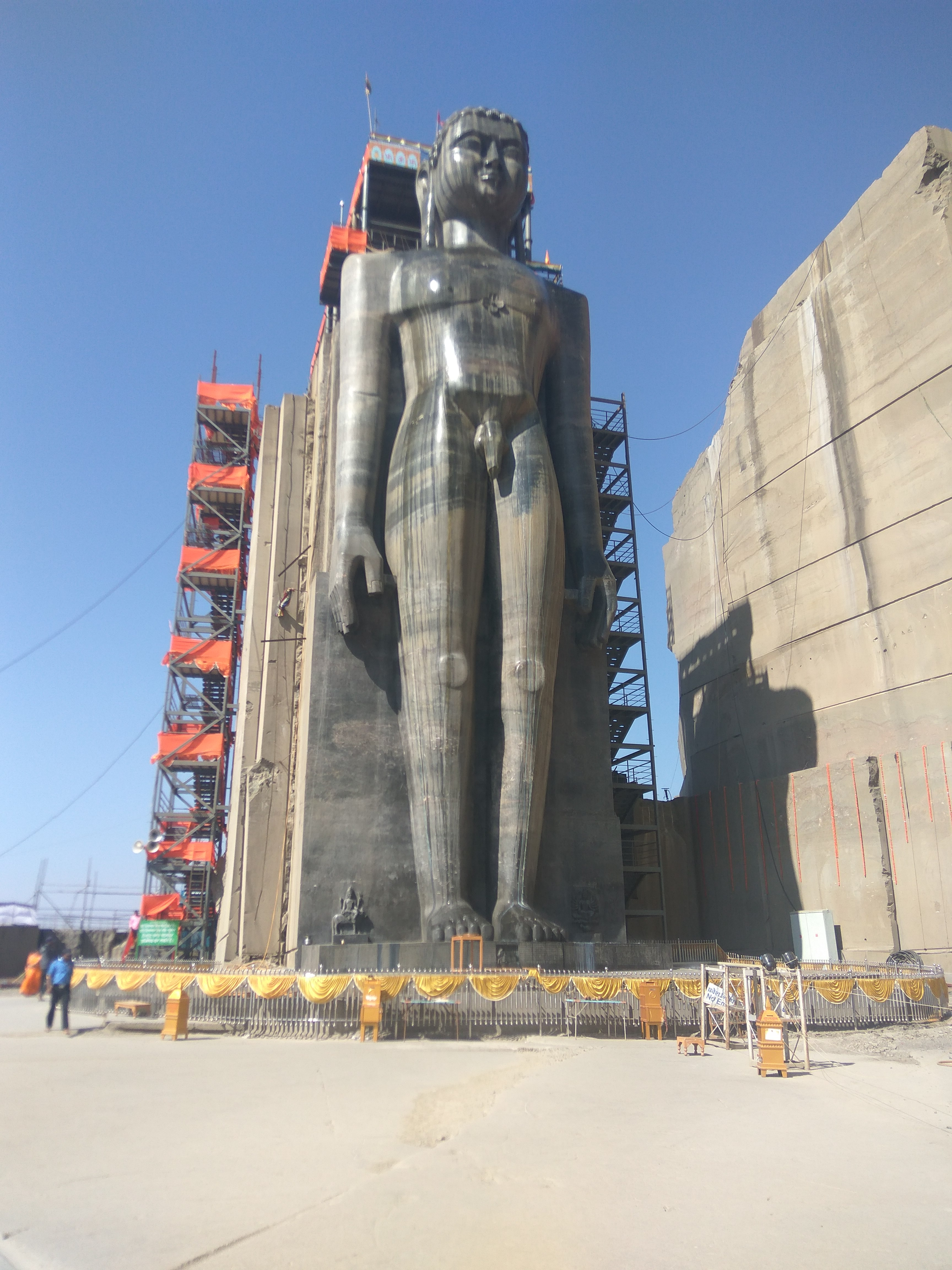 Shri 1008 Rishabdev Bhagwan 108 idol at Mangi Tungi